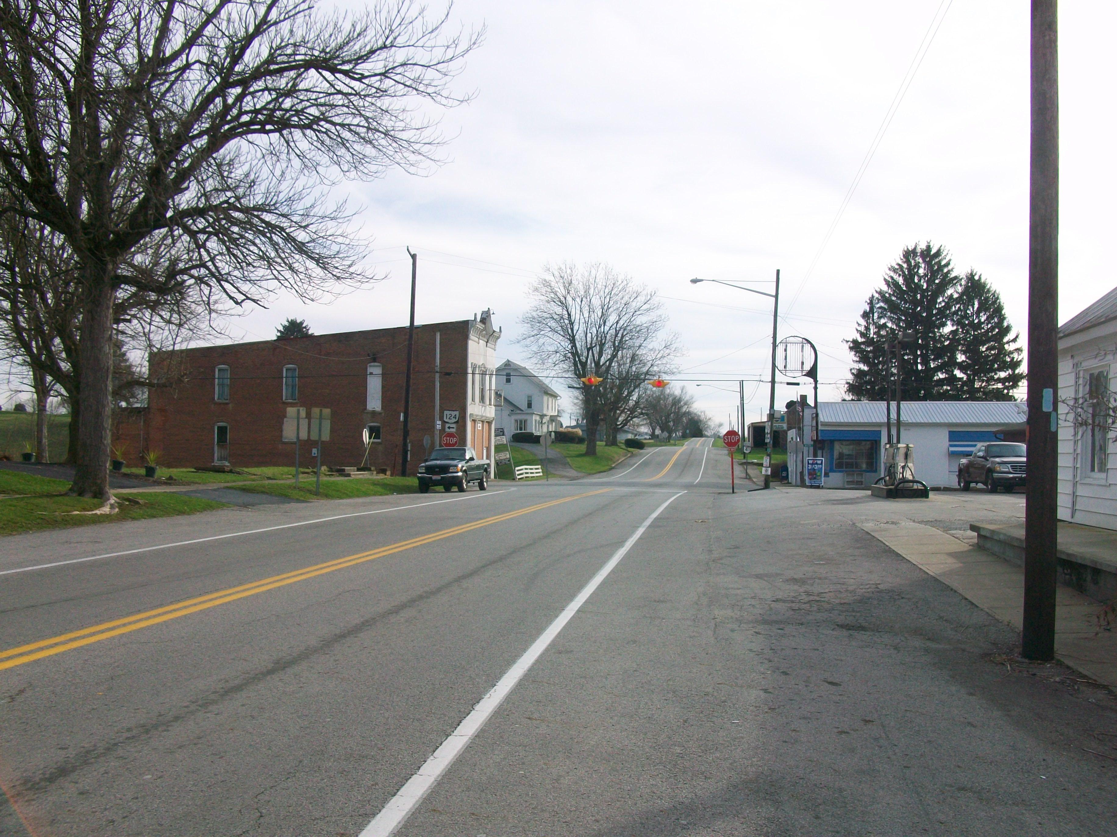 Looking south on Main Street (Ohio Highway 41) in Sinking Spring, Ohio. Ohio State Route 124 turns to the left from here at the intersection; Ohio State Route 41 continues forward.